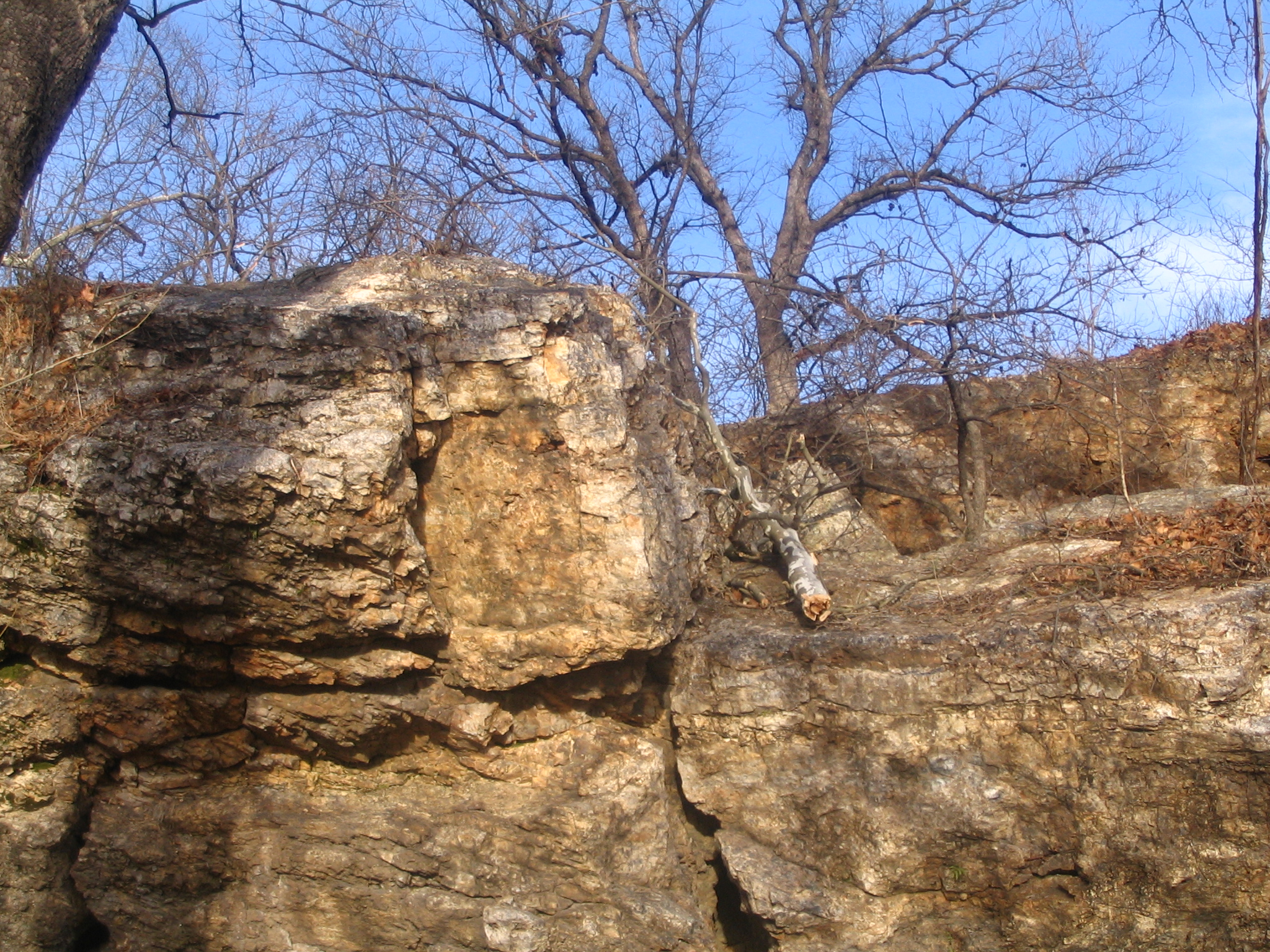 Chert glades in Wildcat glades park.